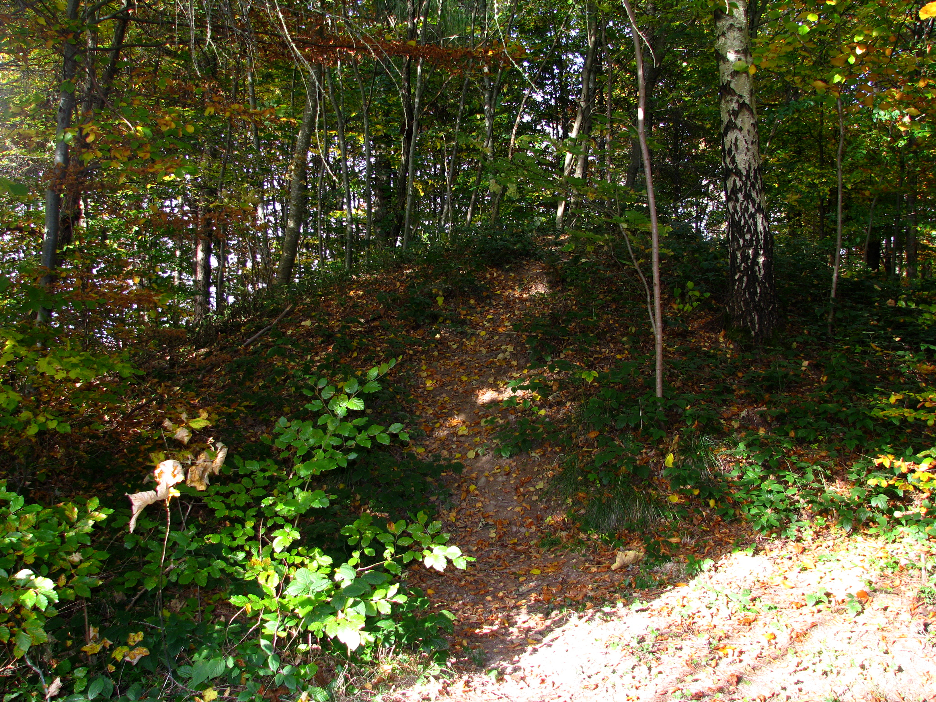 Uetliberg / Uitikon-Waldegg, Sonnenbühl : Fürstengrabhügel Sonnenbühl (La Tène culture), seen from the South.